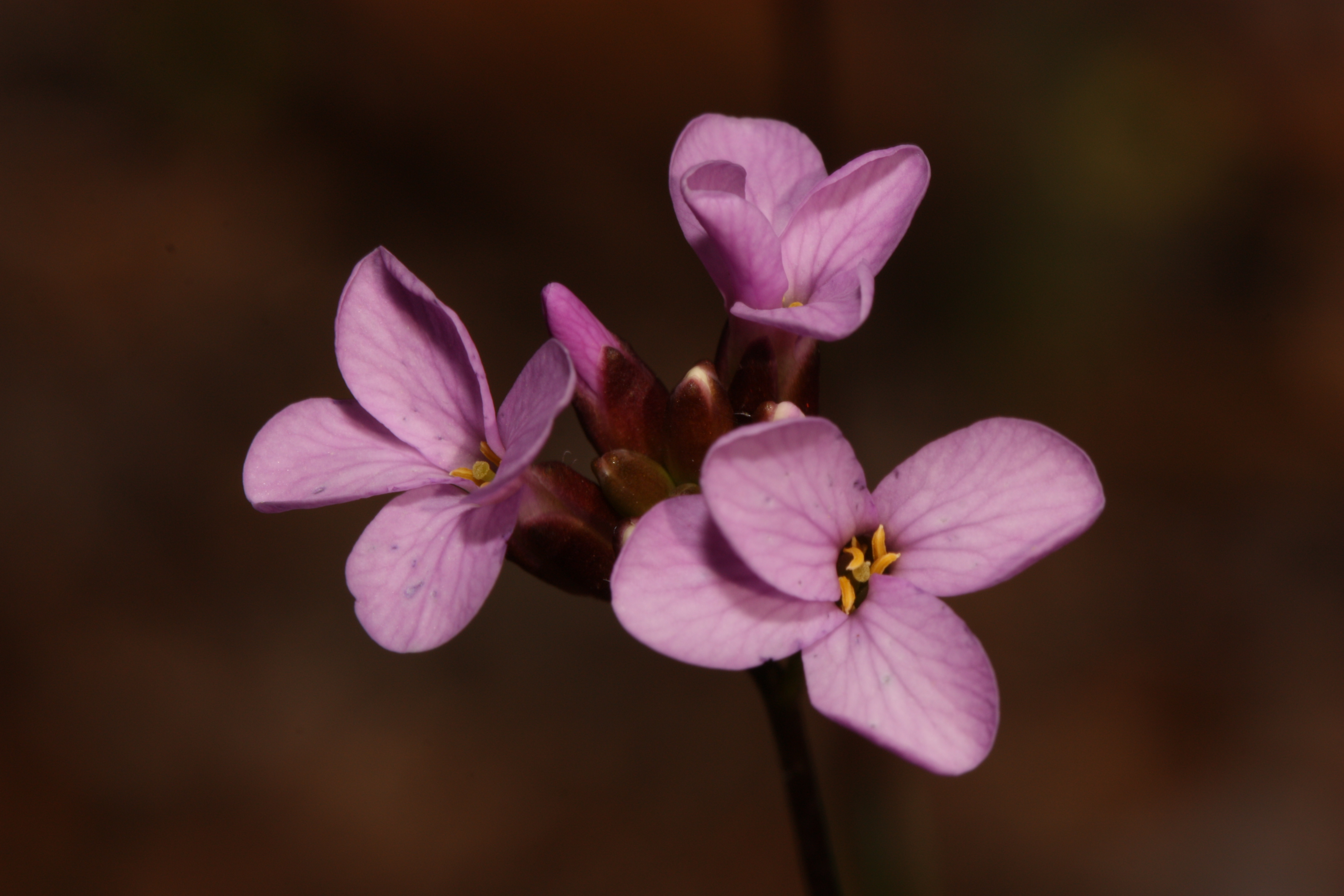 Waldo Rockcress Viewpoint location: Little Falls Trail, T. J. Howell Botanical Drive Viewpoint elevation: 405 meter (1330 ft) Location source: Garmin GPSmap 60CSx Location Datum: WGS84